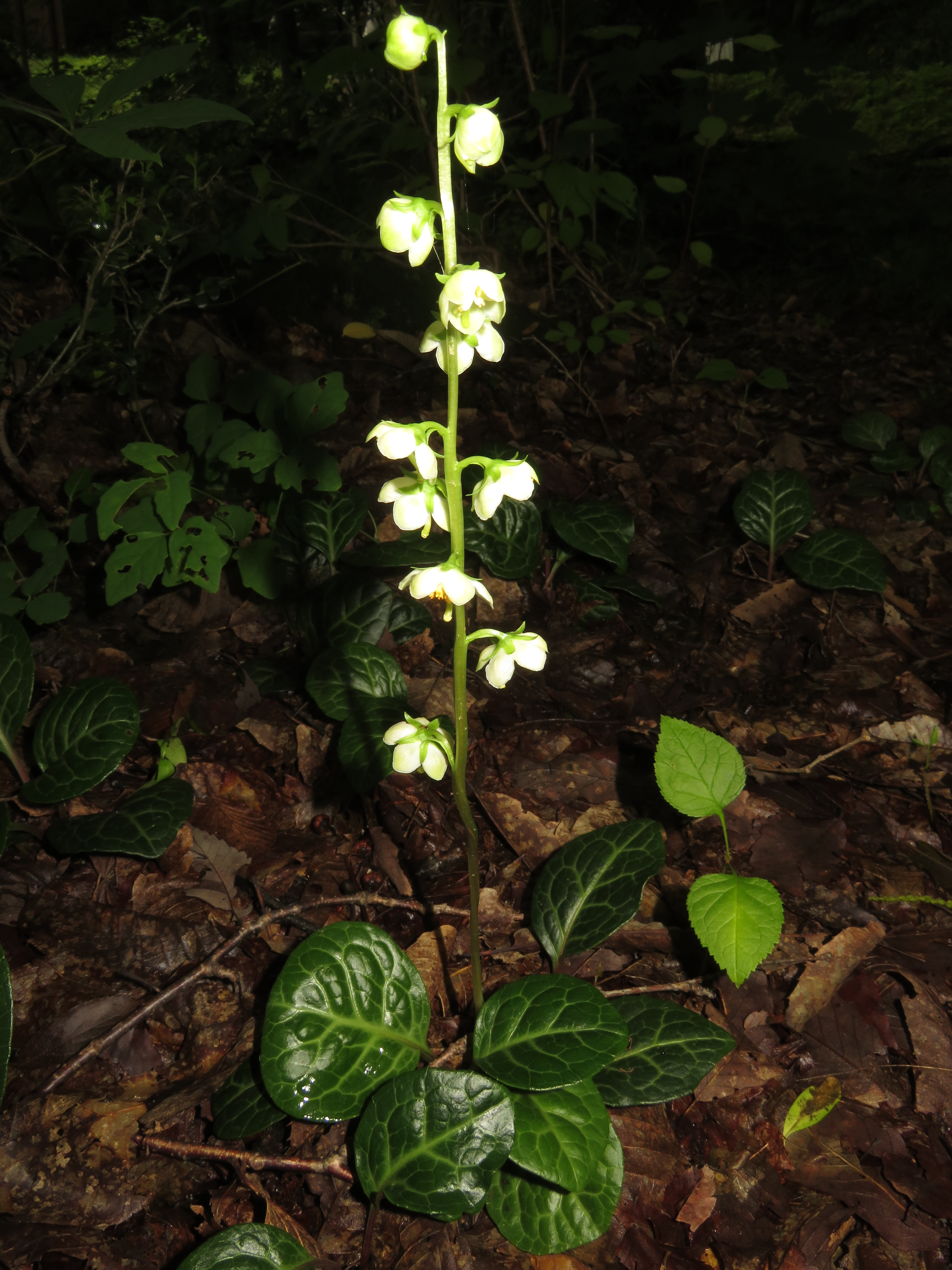 Pyrola japonica, Aizu area, Fukushima pref., Japan